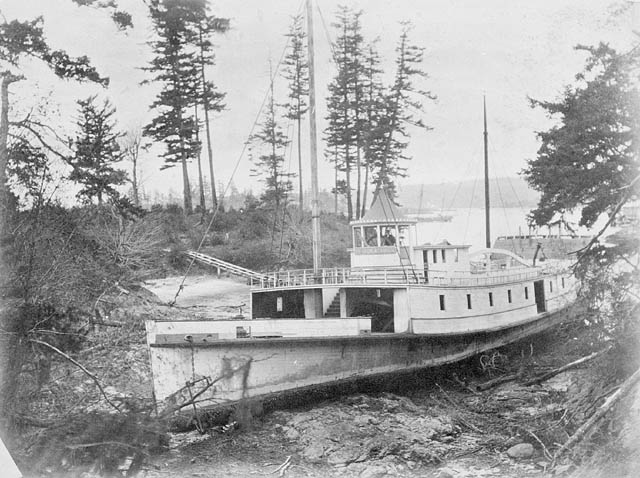 At Esquimalt, B.C., the sternwheel steamboat Alexandra (sometimes Alexandria) photographed sometime after 1874 when her engines had been removed and sold to a firm in Portland, Oregon, to be used in a new steamboat on the Columbia river, the Ocklahama.